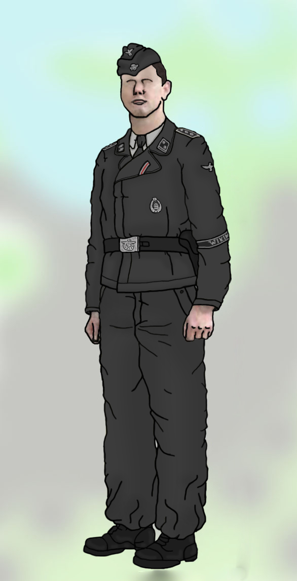 SS Hauptscharführer, Panzer crew, 5th Pan. Reg., 5th SS Div. "Wiking"